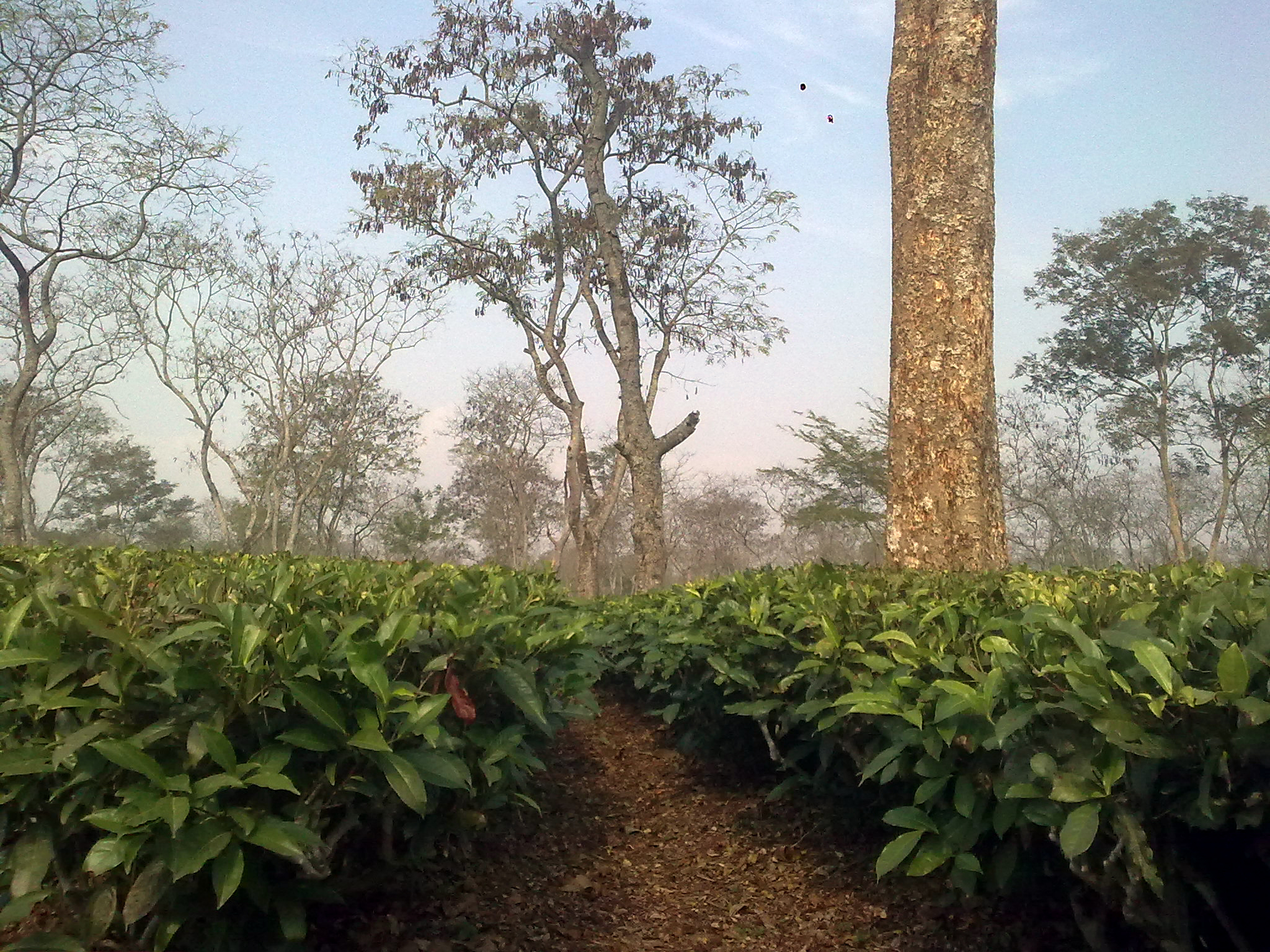 Tea plantation in Sonitpur district of Assam, India